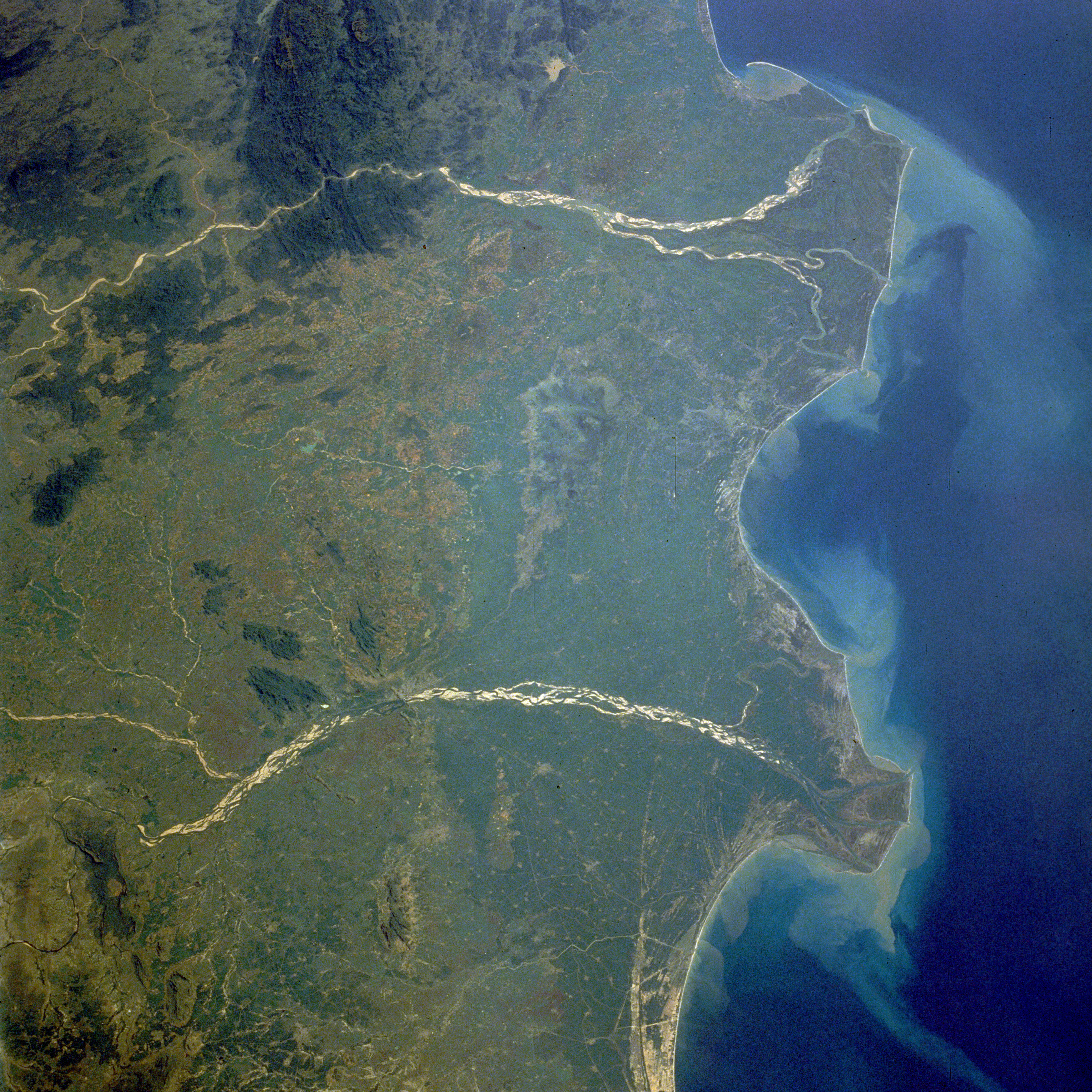 Godavari and Krishna River Deltas in South India — the mouths of the Godavari River (northeast; upper in image) and the Krishna River (southwest, lower in image) empty into the Bay of Bengal in this low-oblique, northwest-looking photograph (October 1989). The two rivers have several common characteristicsâ€”they are quite wide and have conspicuous deltas, both have heavy discharges of water during the monsoon season (June to early September) followed by low discharges during the dry season (October through late May), both discharge sediment into the Bay of Bengal, and both are sacred rivers of the Hindu religion. The Godavari River — 900 miles (1450 kilometers) long, rises in the Western Ghats and flows across the Deccan Plateau toward the Bay of Bengal in eastern India. Below the city of Rajahmundry, the river divides into two streams that form the huge delta named Pasarlapudi, which is the site of some of the earliest European settlements in India. The Krishna River — more than 800 miles (1290 kilometers) long, also rises in the Western Ghats only 40 miles (64 kilometers) from the Arabian Sea. The river also traverses the Deccan Plateau and empties into the Bay of Bengal southwest of the Godavari River Delta.